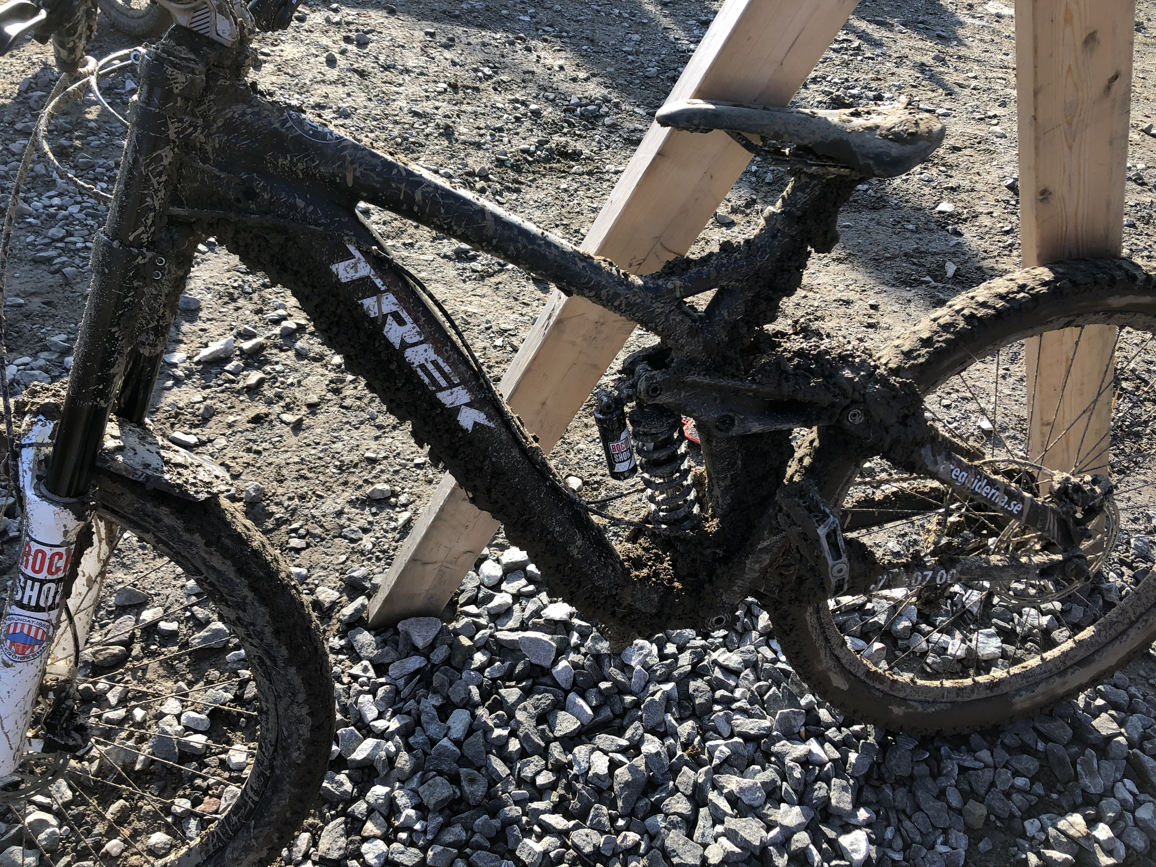 Mountain bike downhill